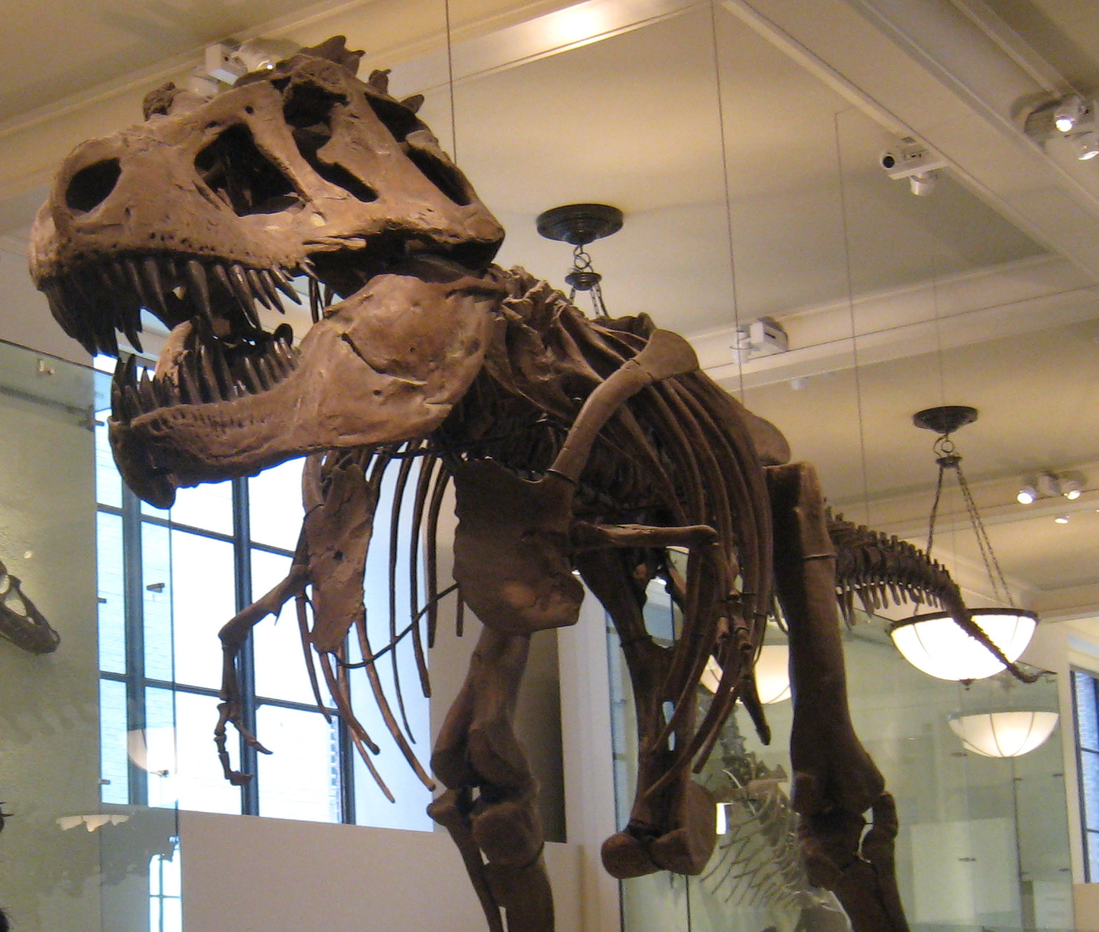 3/4 full length (2) view of the Tyrannosaurus Rex at the American Museum of Natural History